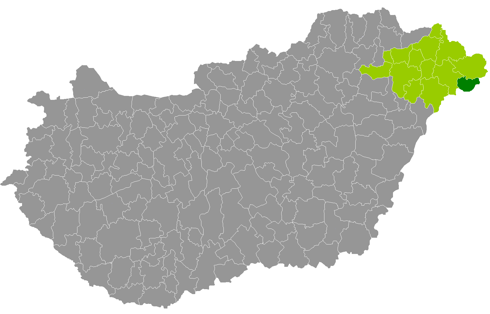 Location of Csenger District, Szabolcs-Szatmár-Bereg, Hungary